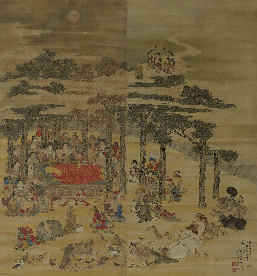 Nirvana painting by Kakizaki Hakyō, Kōryūji, Hakodate, Hokkaidō, Japan